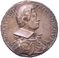 Coin of Honrius II of Monaco